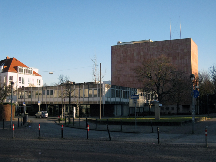 The Staatsarchiv Bremen (“state archive”), in Bremen, Germany, built 1968.